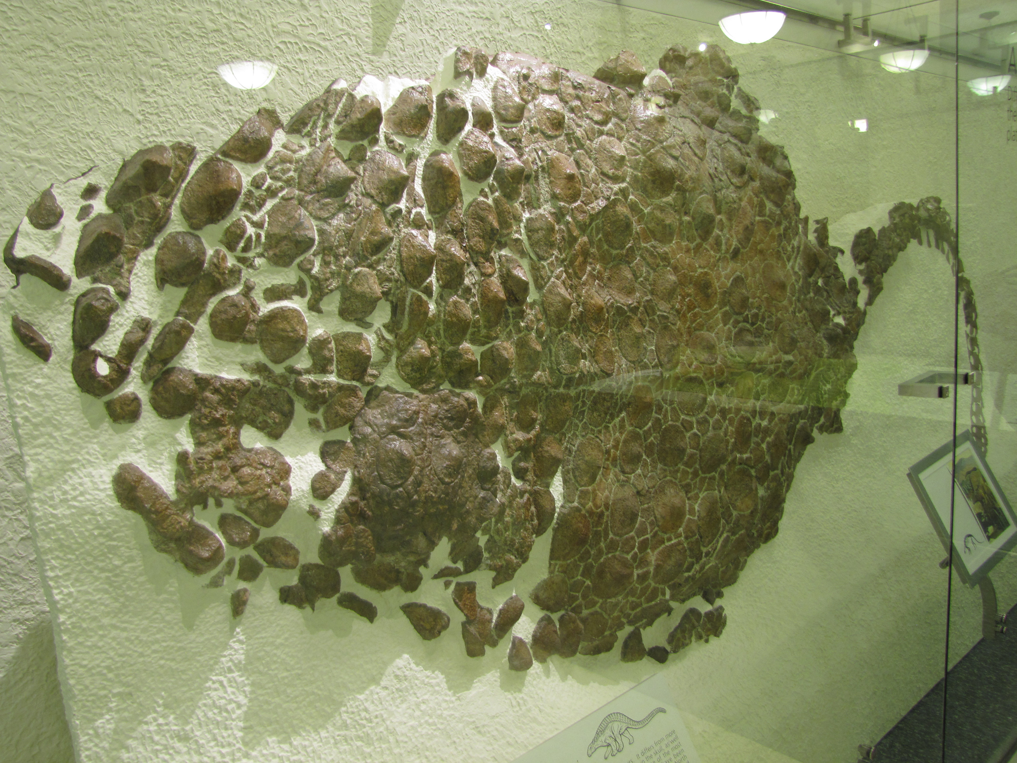 Armor made of osteoderms of Sauropelta, American Museum of Natural History.